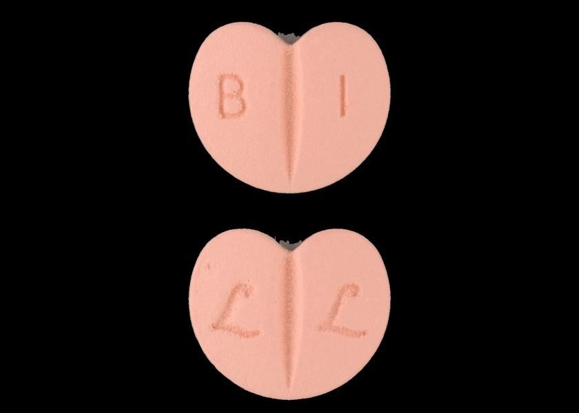 Drug Name: Zebeta 5 MG Oral Tablet Ingredient(s): Bisoprolol Drug Label Imprint: b;b;6;0 Color(s): Pink Shape: Tear Size (mm): 7.00 Score: 2 Inactive Ingredient(s): ShowHide silicon dioxide / starch, corn / crospovidone / an... silicon dioxide / starch, corn / crospovidone / anhydrous dibasic calcium phosphate / hypromellose / magnesium stearate / cellulose, microcrystalline / polyethylene glycol / polysorbate 80 / titanium dioxide / ferric oxide red / ferric oxide yellow Drug Label Author: Duramed Pharmaceuticals, Inc. DEA Schedule: Non-scheduled